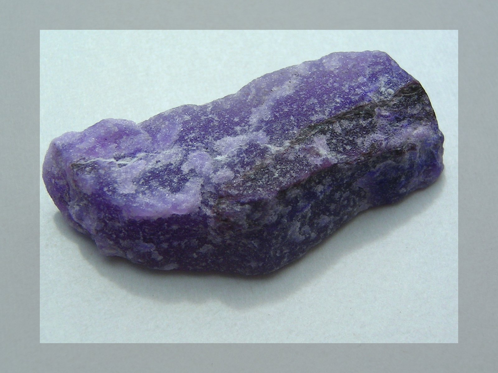 Sugilith